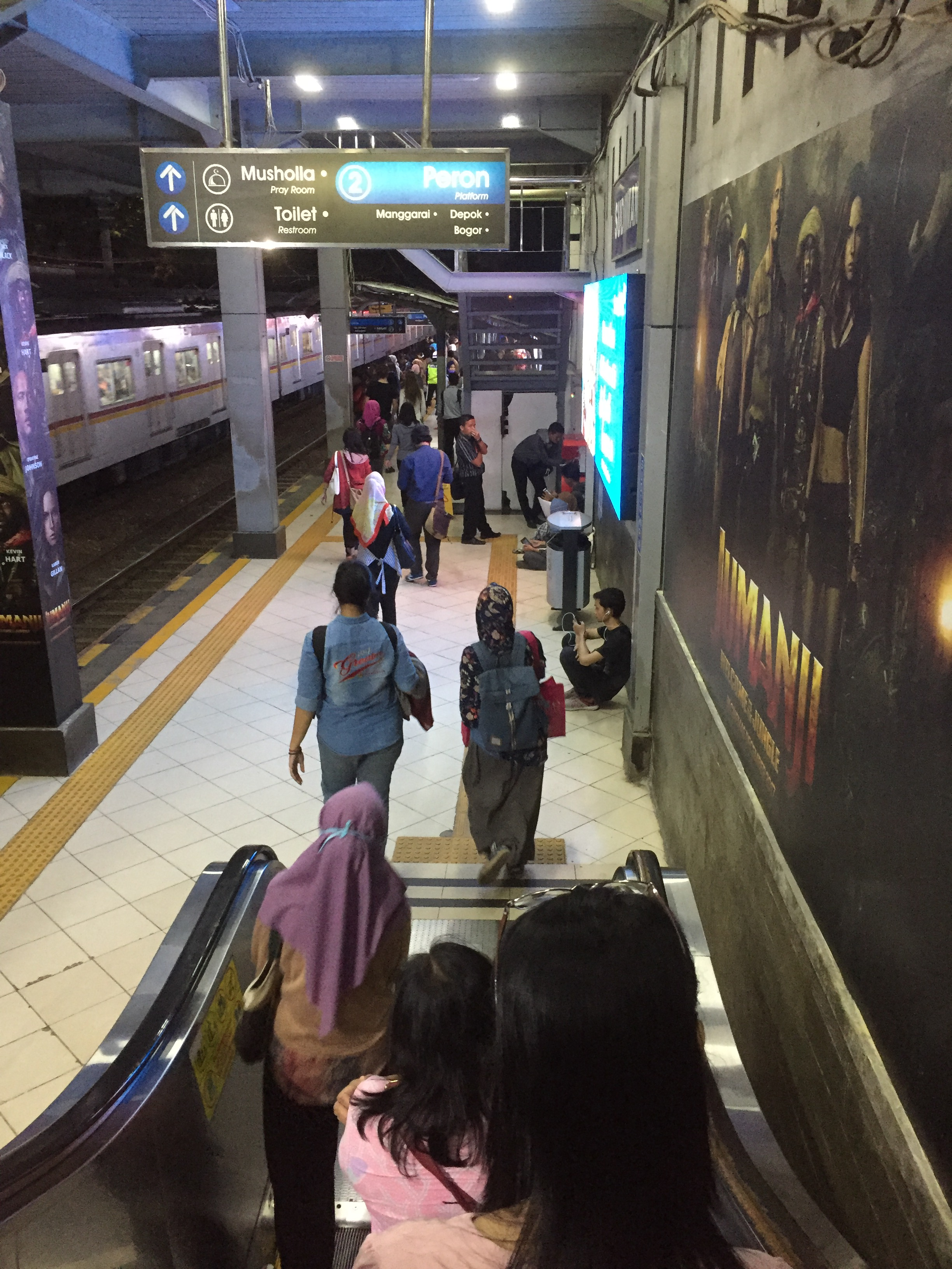 Sudirman station is one of the busiest commuter line stations in Jakarta, located nearby Sudirman street